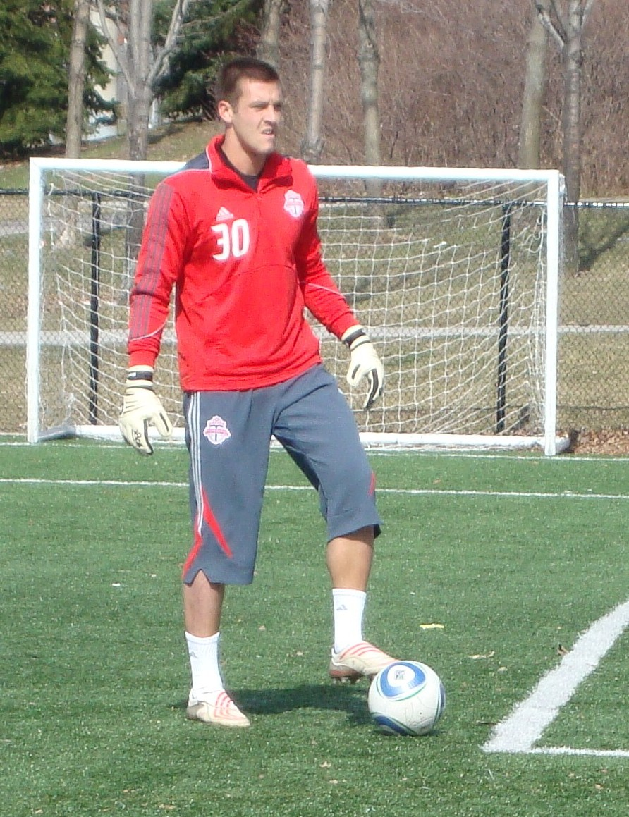 Milos Kocic